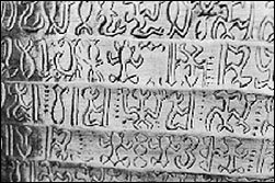 A closeup of a rongorongo tablet.